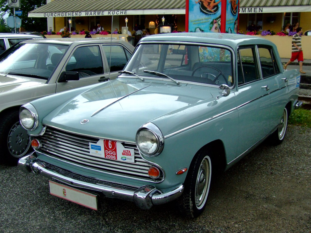 Summary Quelle: selbst fotografiert, 06/2006 Fotograf: Späth Chr.